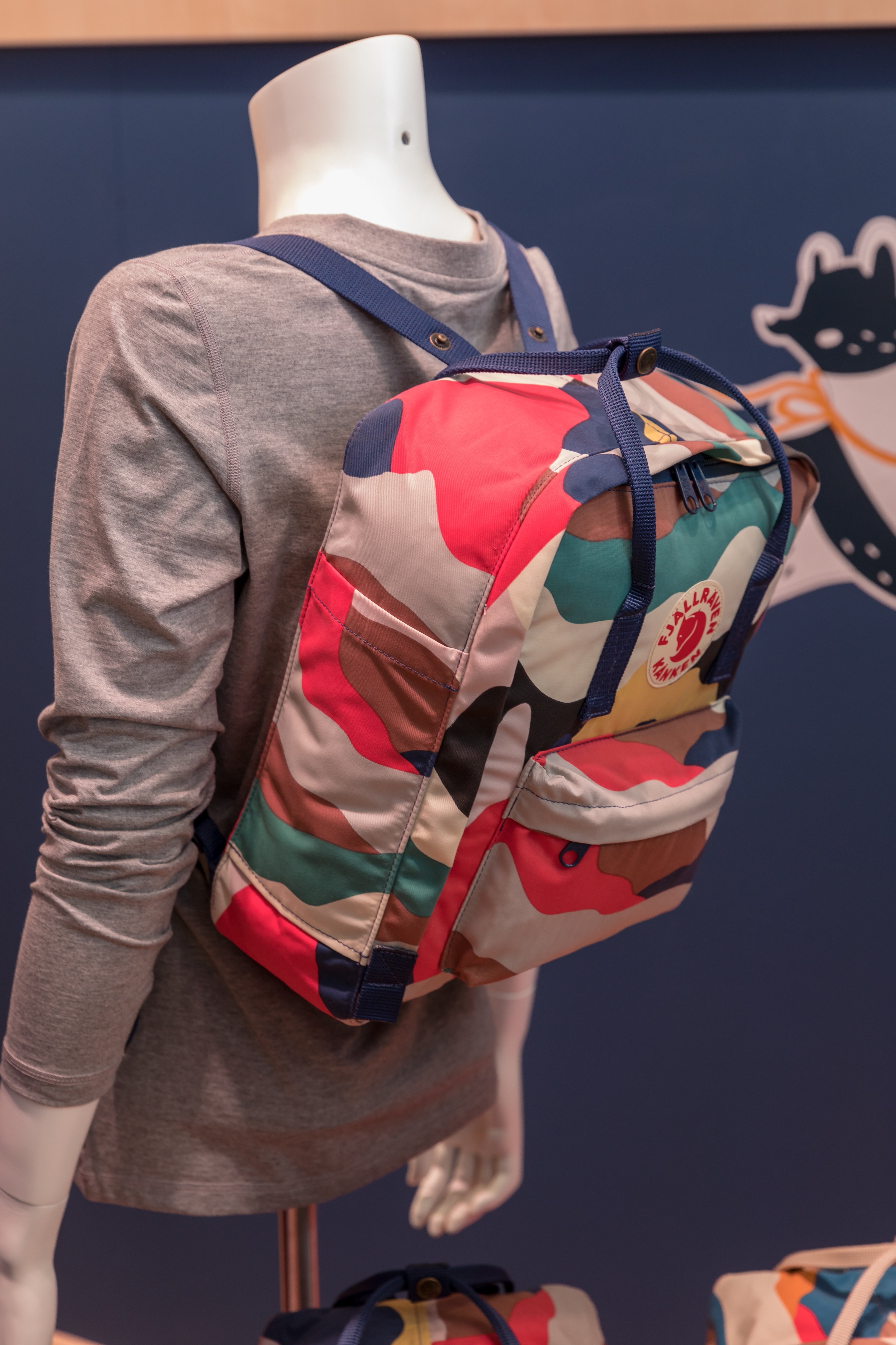 OutDoor 2018